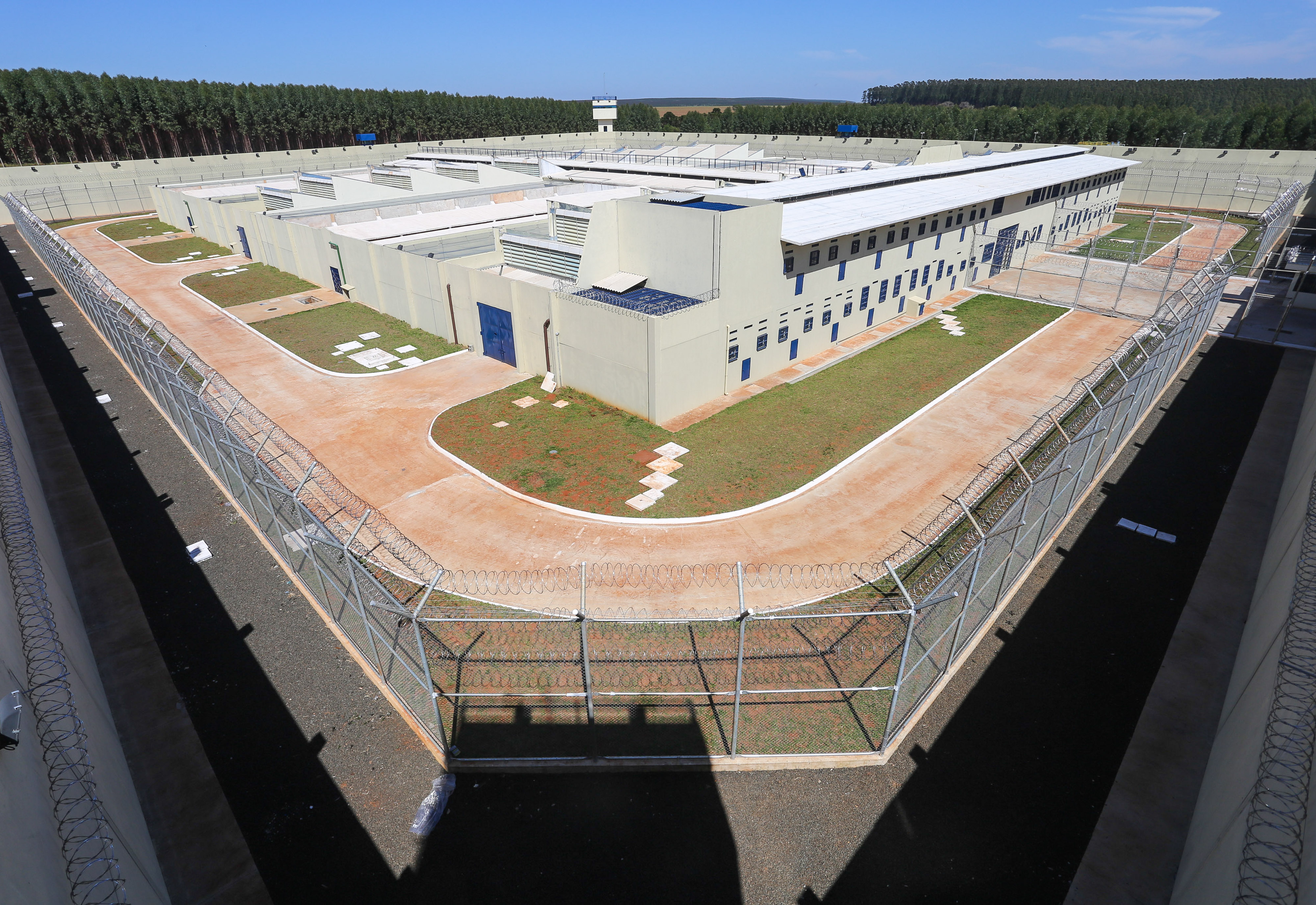 O governador do estado de São Paulo, participa da cerimônia de inauguração do Centro de Detenção Provisória (CDP). Data: 23/09/2016. Local: IItatinga/SP. Foto: Gilberto Marques/A2img